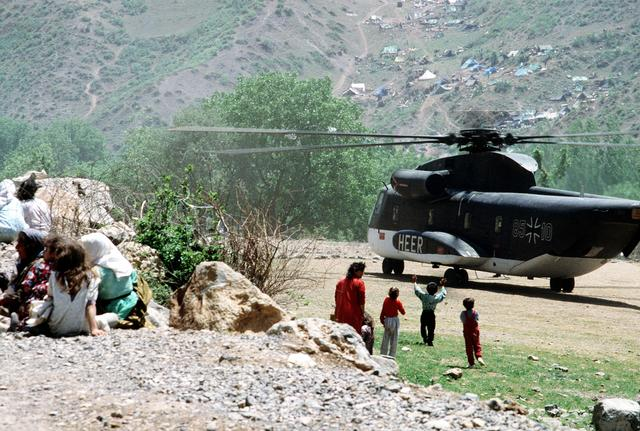 Kurdish refugee children run toward a CH-53G helicopter of the German Army during Operation Provide Comfort, an Allied effort to aid Kurdish refugees who fled the forces of Saddam Hussein in northern Iraq.